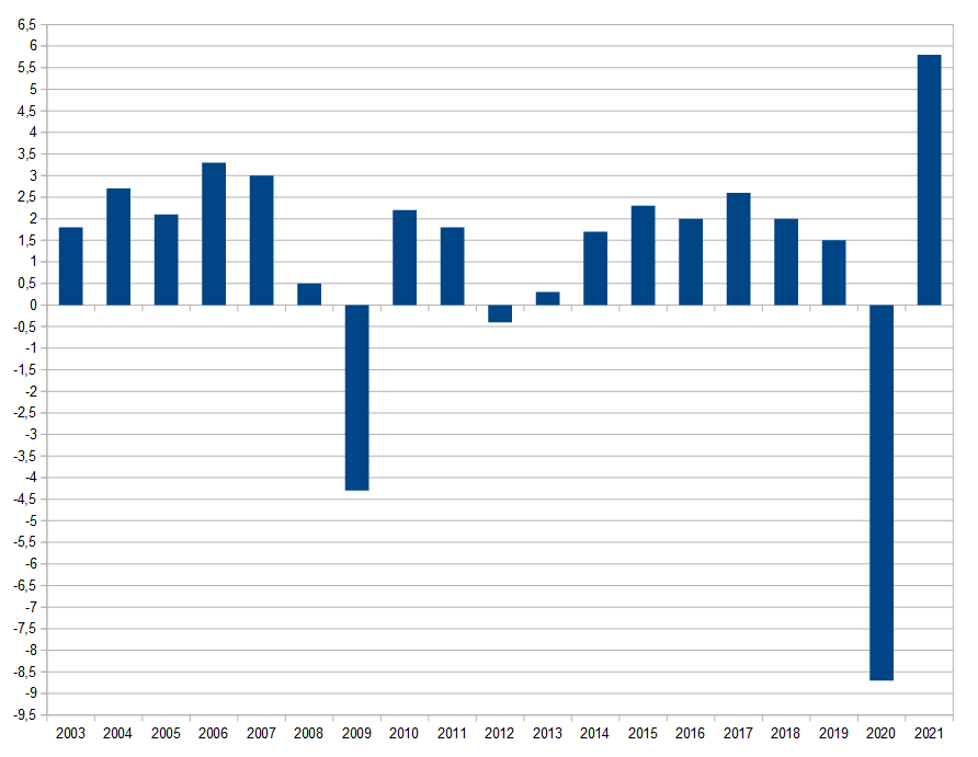 Real GDP growth rate European Union Information from statista: Das Statistik-Portal